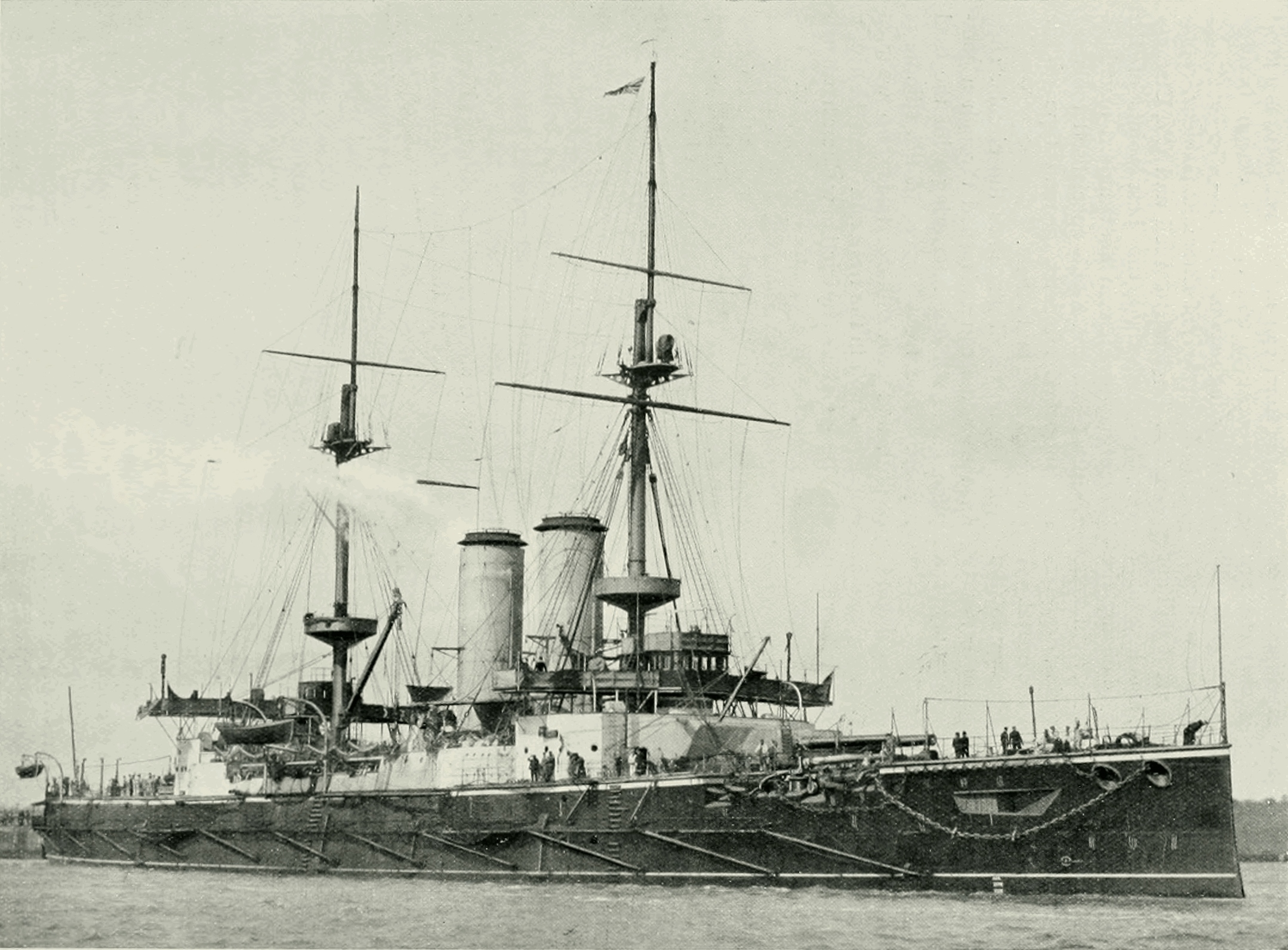 A photo of HMS Russell (1901). The illustration was featured in the August 1902 issue of Page's Magazine, on page 170.